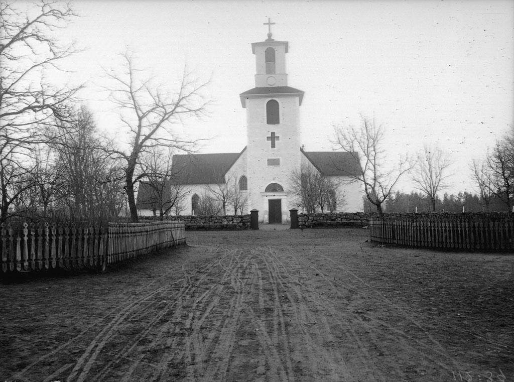 Höreda Church from the 14th century. The tower is built in 1833. Format: Glass plate negative